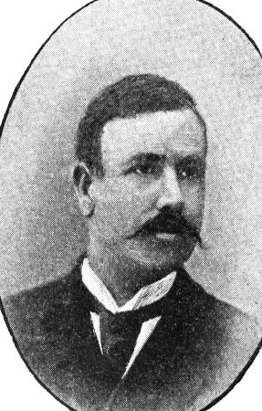 Emmanouil Zolotas (1858/9-1919): Greek theologian and university professor